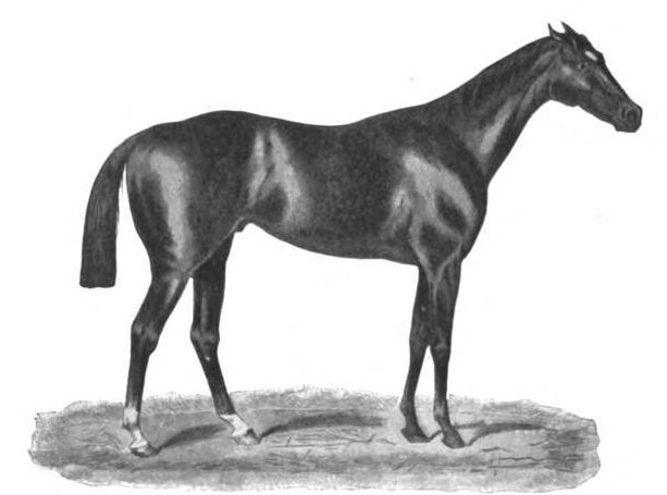 1883 Ascot Gold Cup winner Tristan.